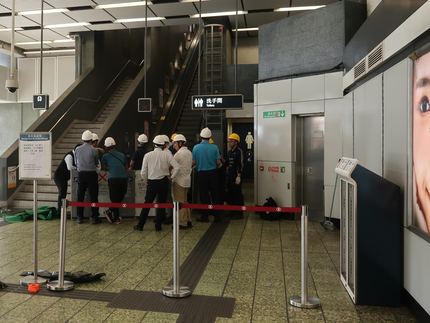 Ngau Tau Kok Station Escalator accident